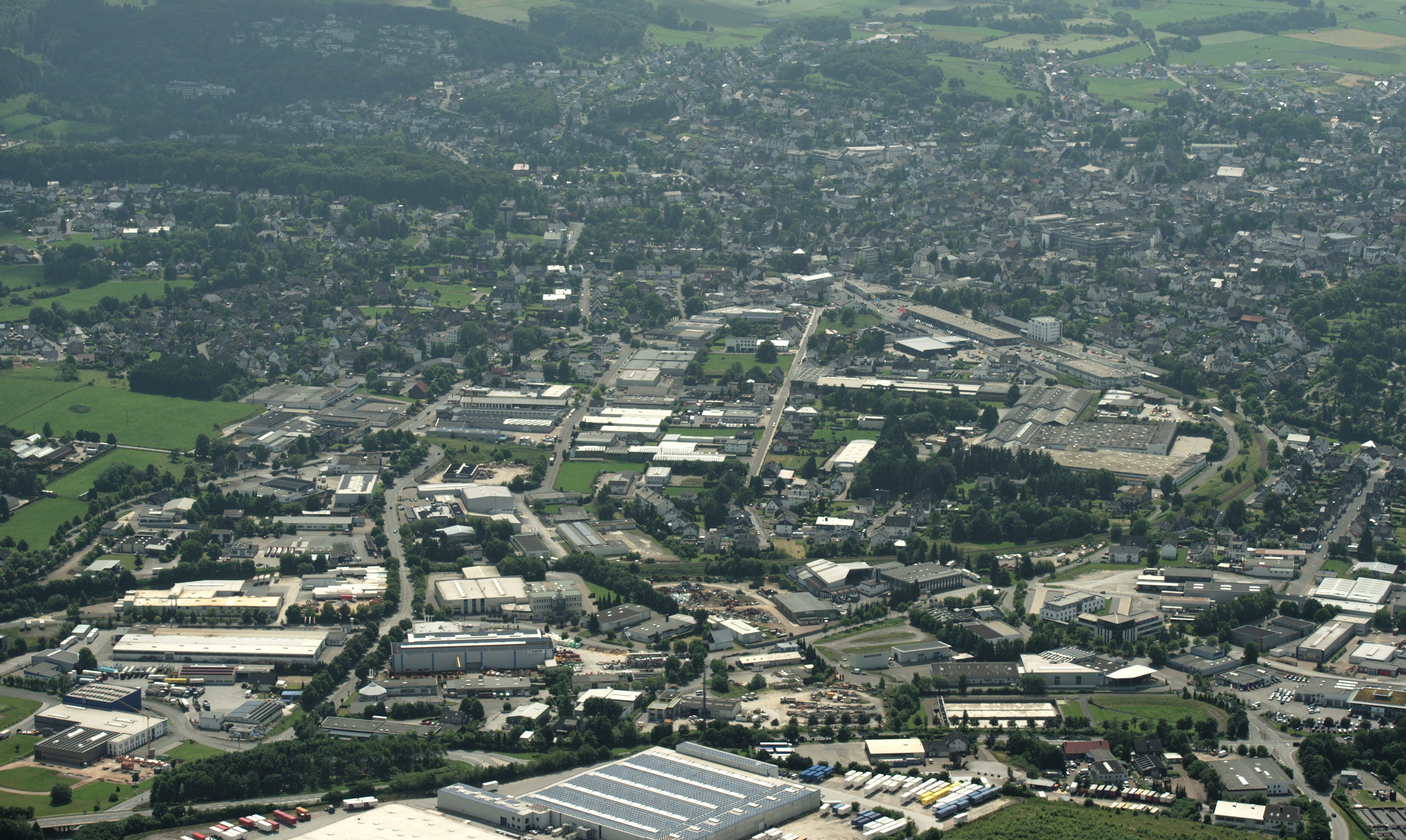 Fotoflug Sauerland-Ost; Brilon, Aufnahme von Nordosten The making of this document was supported by the Community-Budget of Wikimedia Germany.